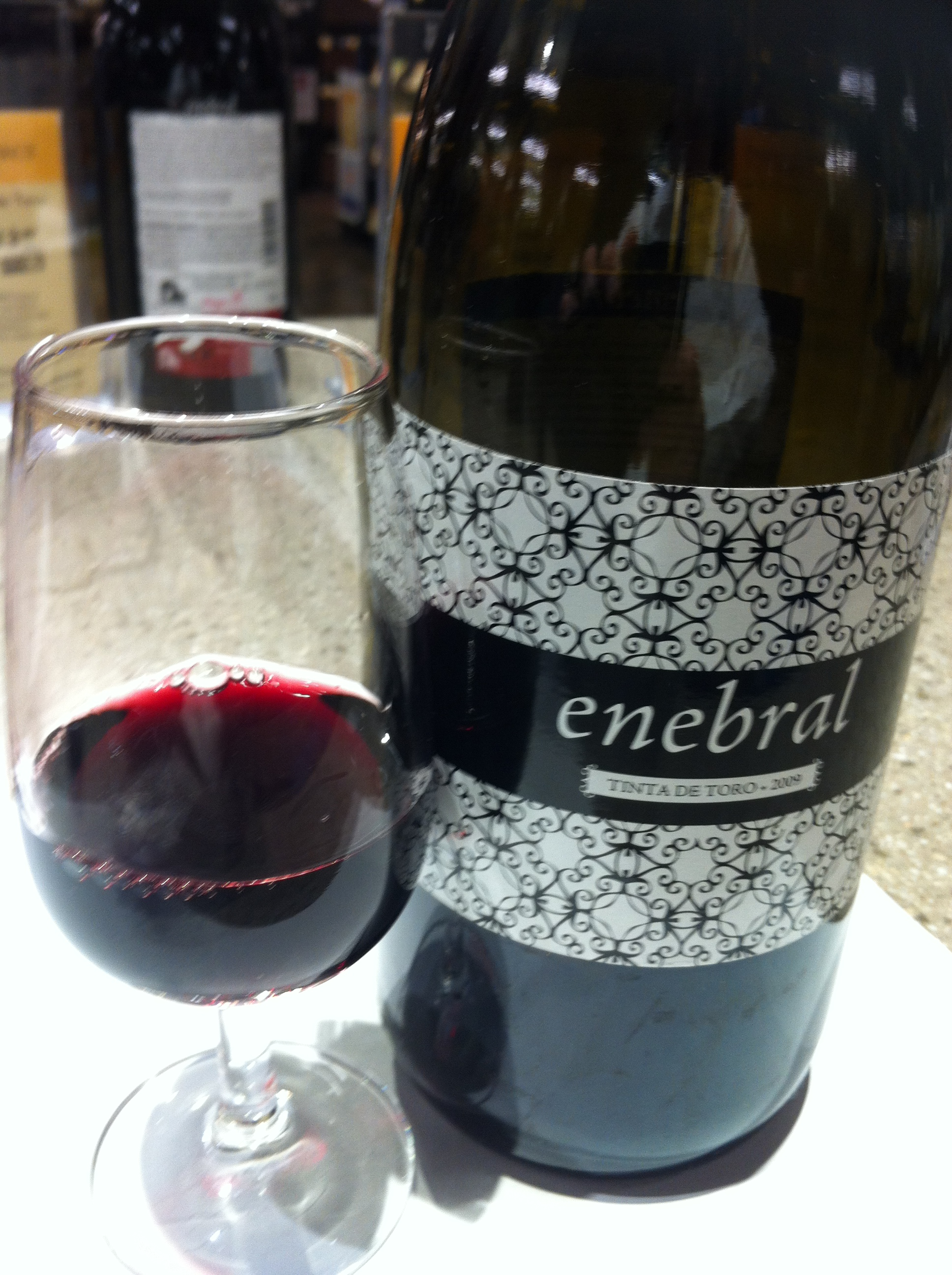 Spanish red wine from the Toro region of Castilla Leon made from Tempranillo